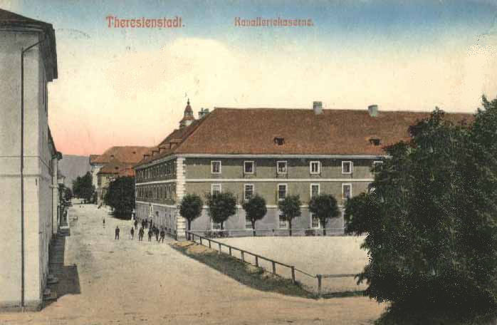 Cavalry barracks at the Theresienstadt (now Terezin) Fortress (CZ)